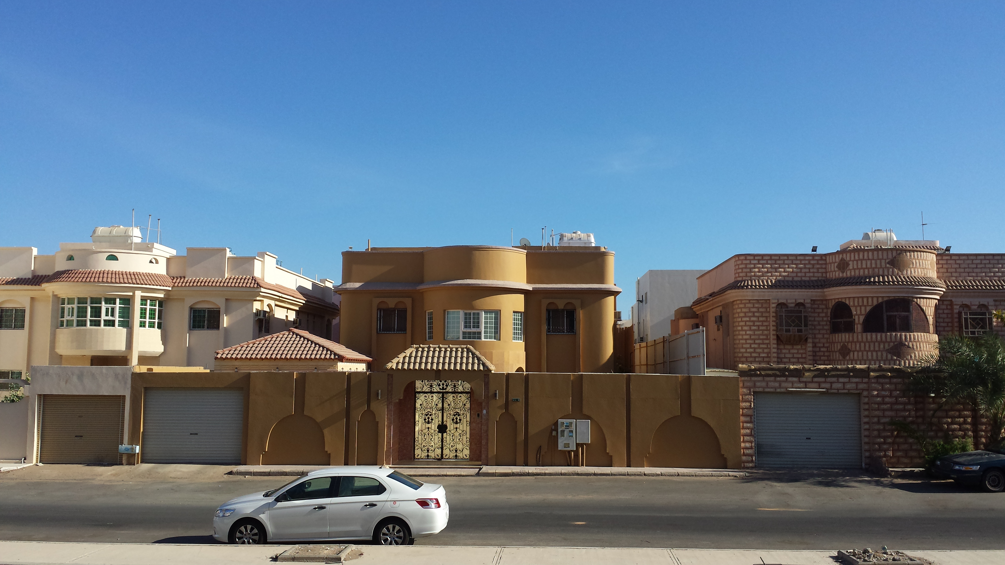 Home in Yanbu City